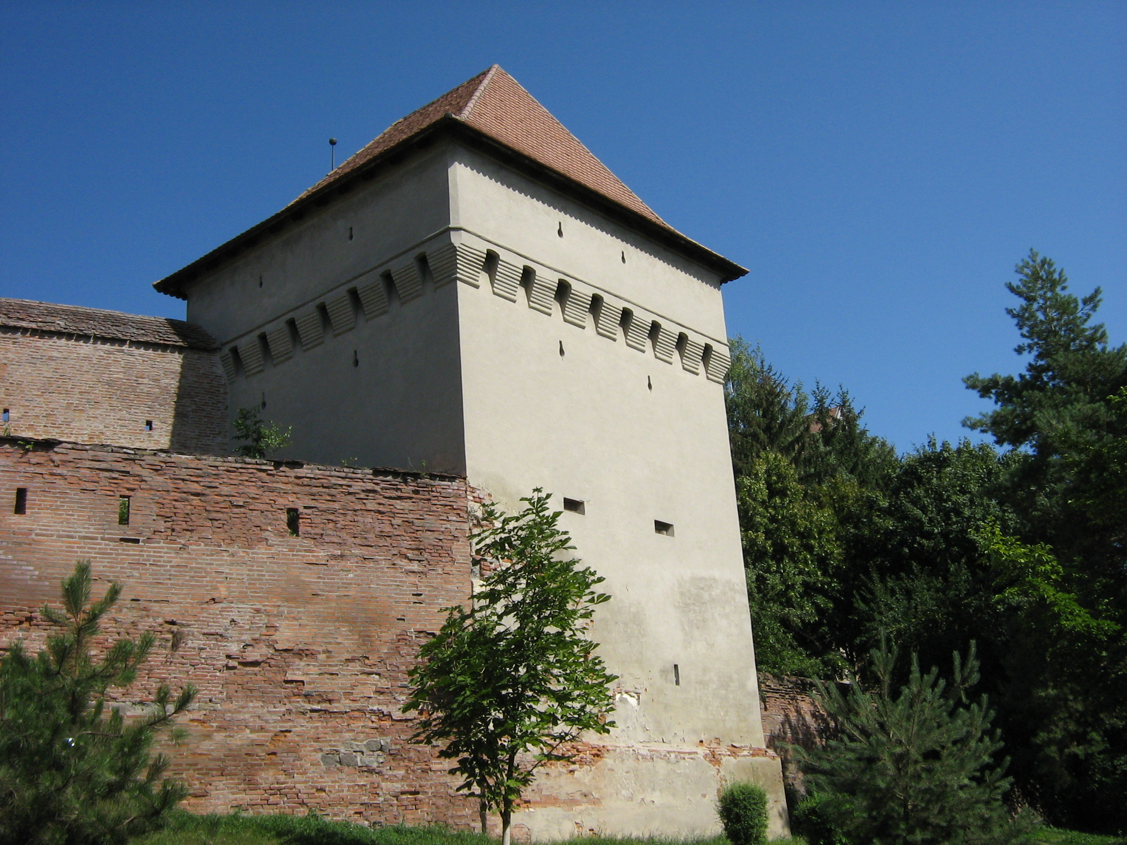 The Castle of Târgu Mureş